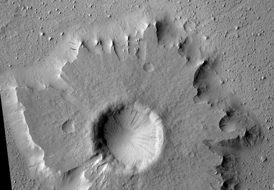 Pedestal crater and streaks in southwest Amazonis. The location is 7.3 degrees north latitude and 164.6 degrees west longitude. Image was taken with HiRISE. Photo credit is NASA/JPL/ University of Arizona